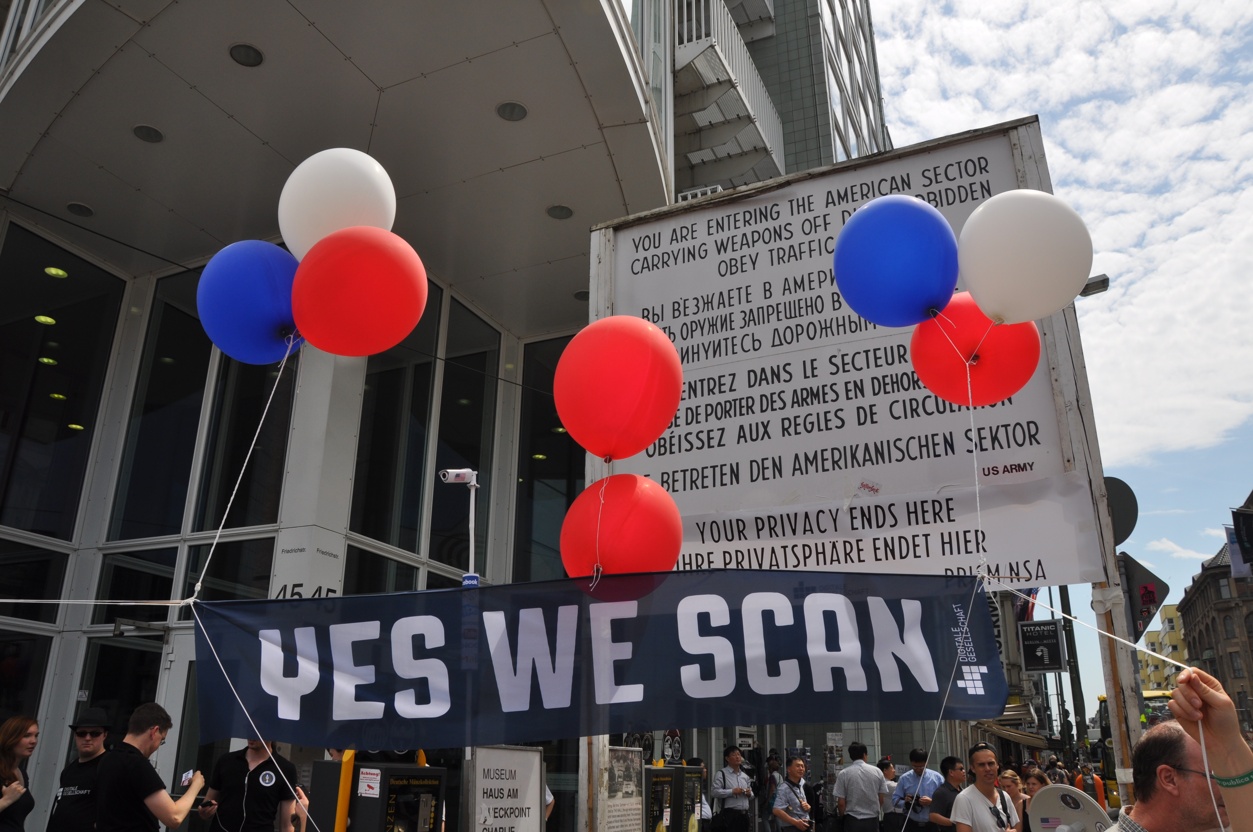 Yes we scan - PRISM protest at Checkpoint Charlie, organised by Digitale Gesellschaft